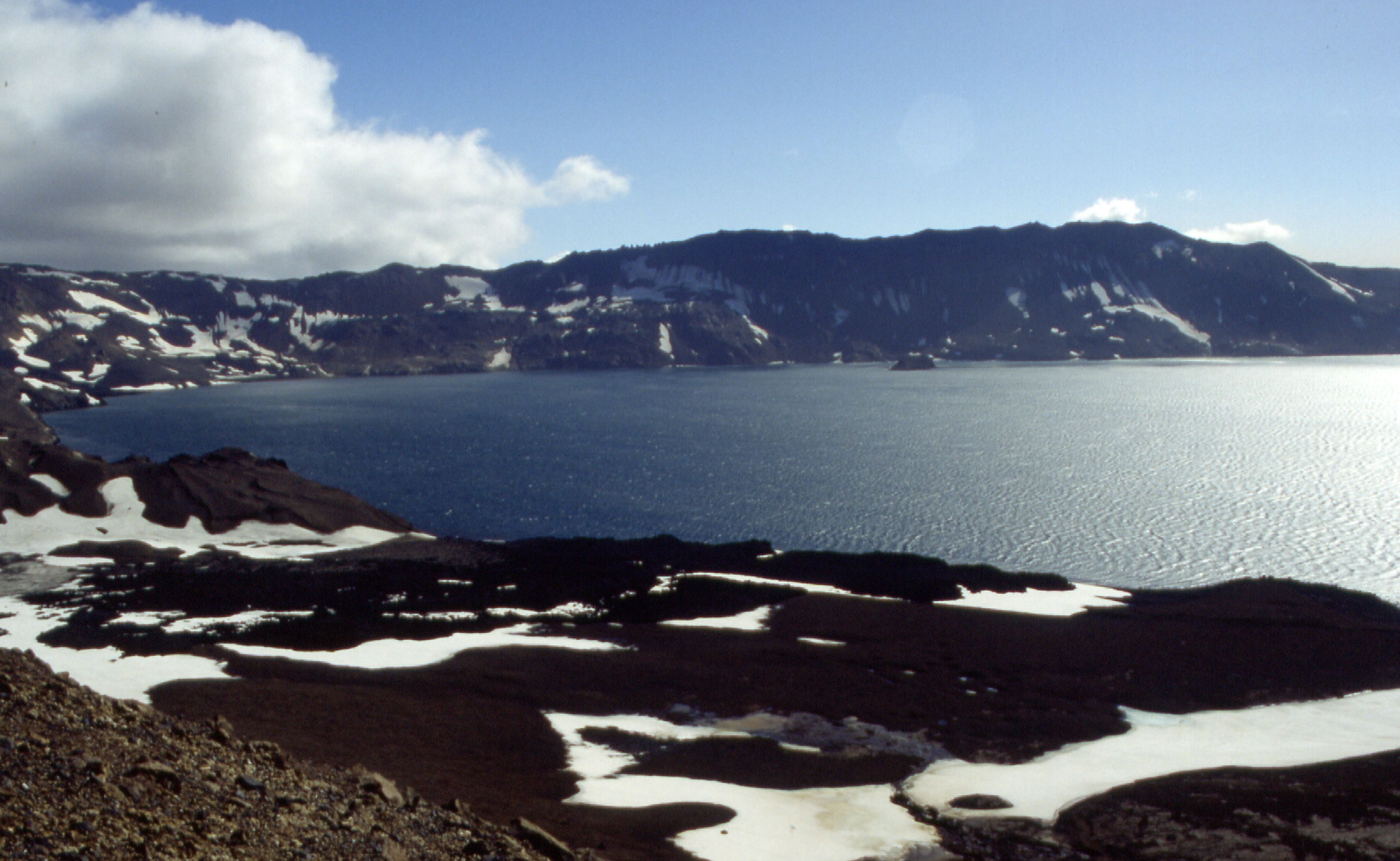 Öskjuvatn, the lake in the crater of the volcano Askja, Iceland. Taken in summer 1994.